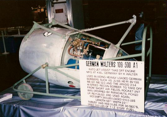 Walter HWK 109-500 aircraft rocket engine.